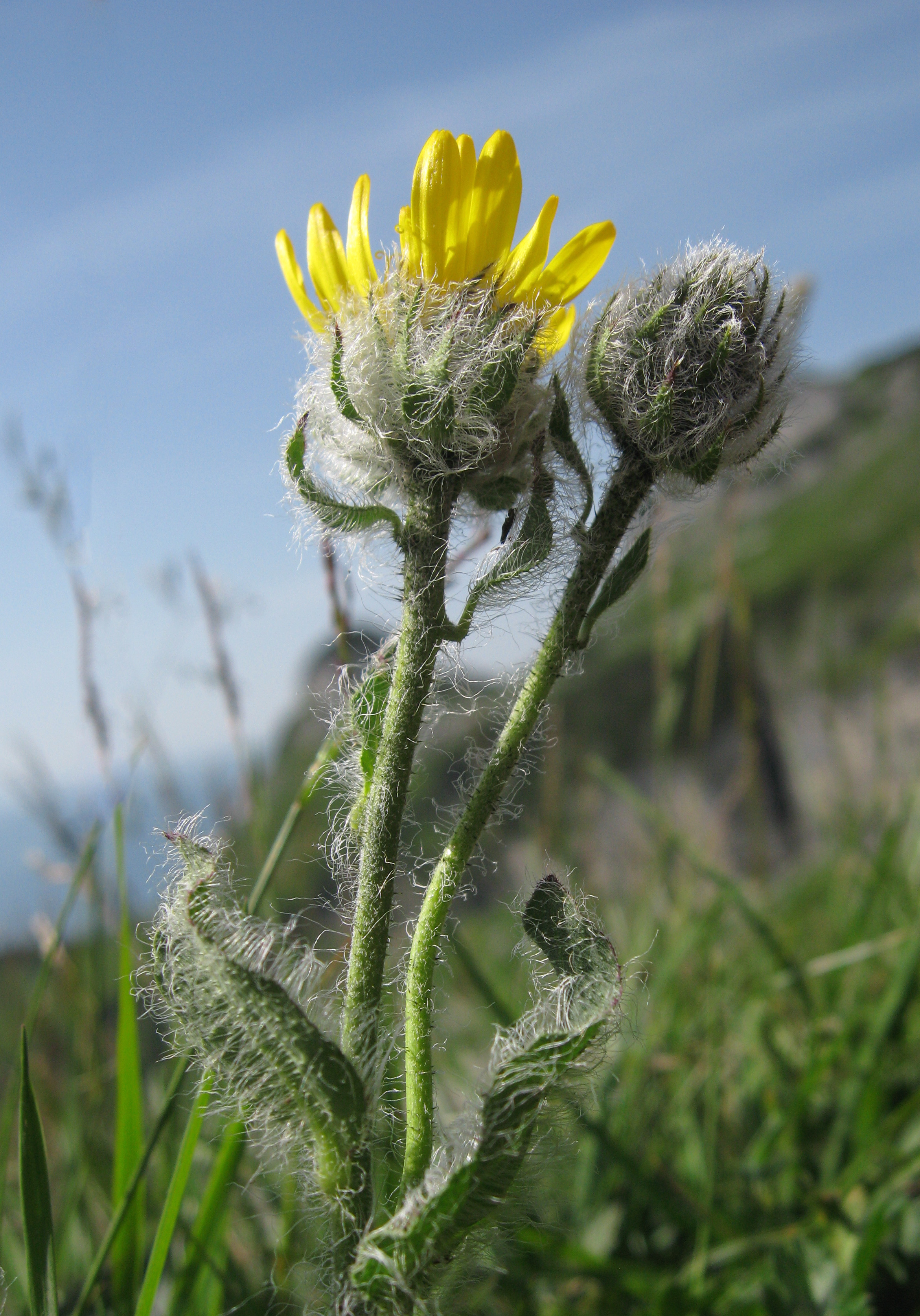 shaggy hawkweed (Hieracium villosum)